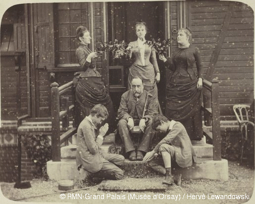 Apoteosi di Degas